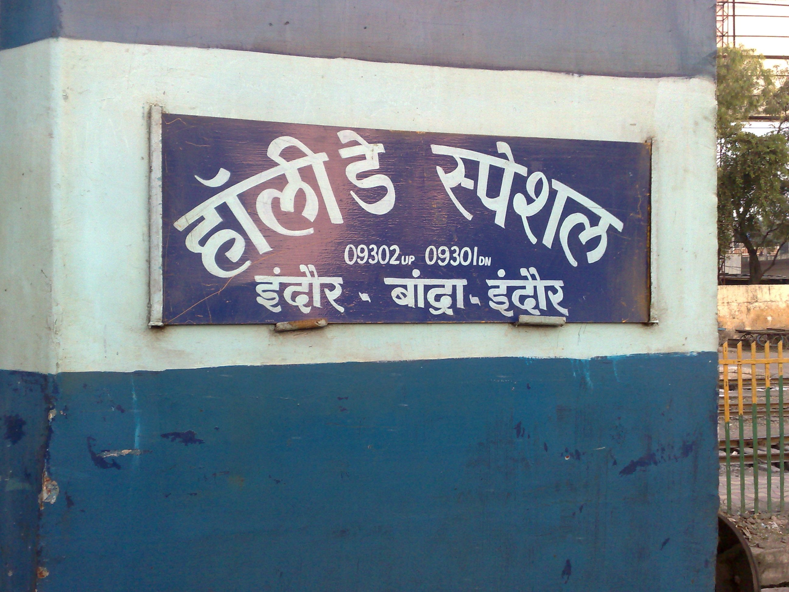 09302 Holiday Special coach A1